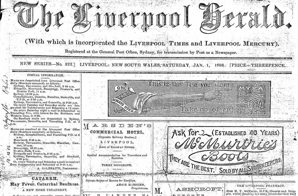 The Liverpool Herald newspaper front page with title banner, 1 January 1898 edition